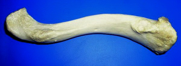 Clavicula inferior aspect Right clavicula from below